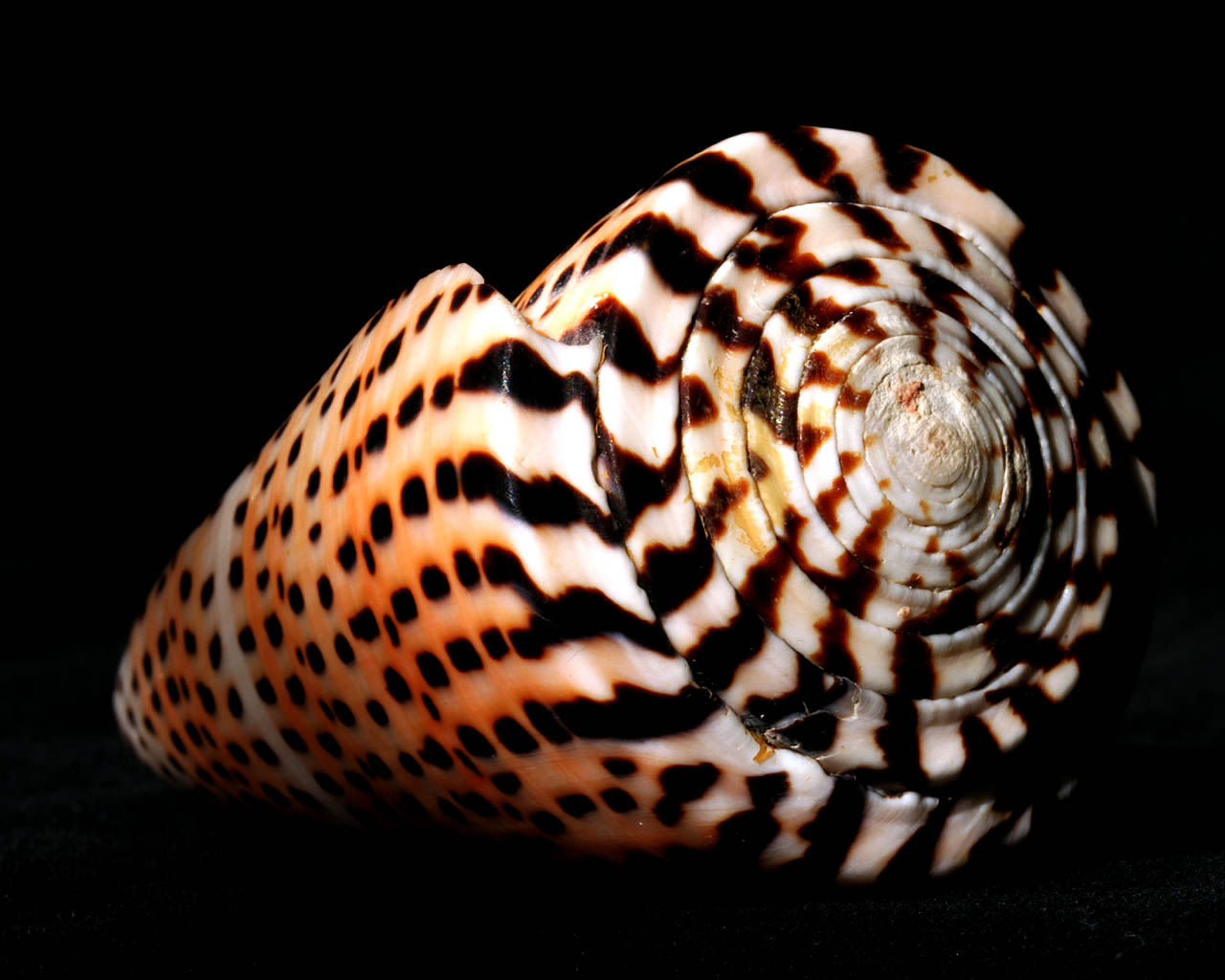 A conus litteratus collected near Toliara, Madagascar